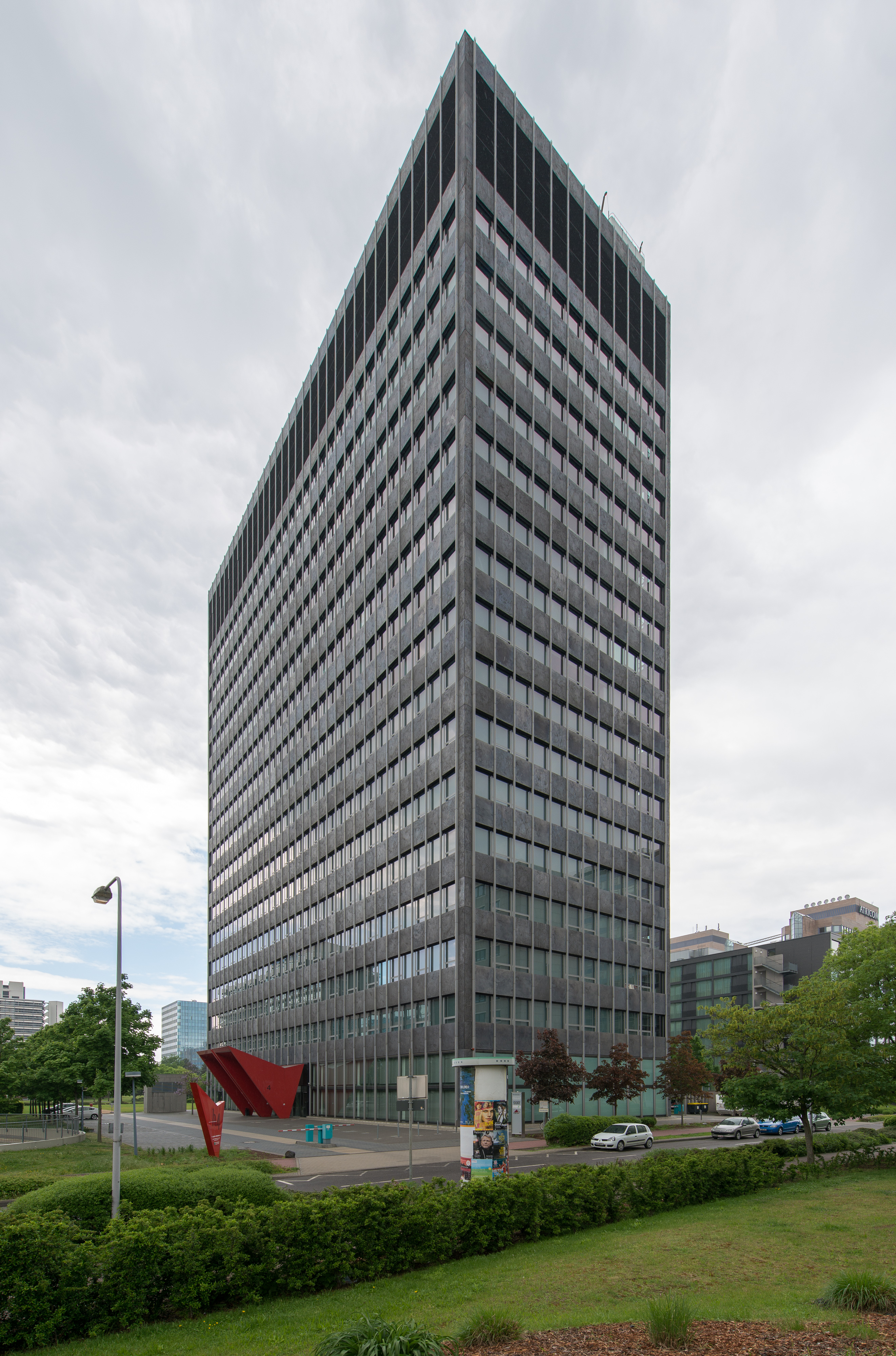 Frankfurt am Main, Herriotstraße 4 (as seen from South-East). Office tower from 1969